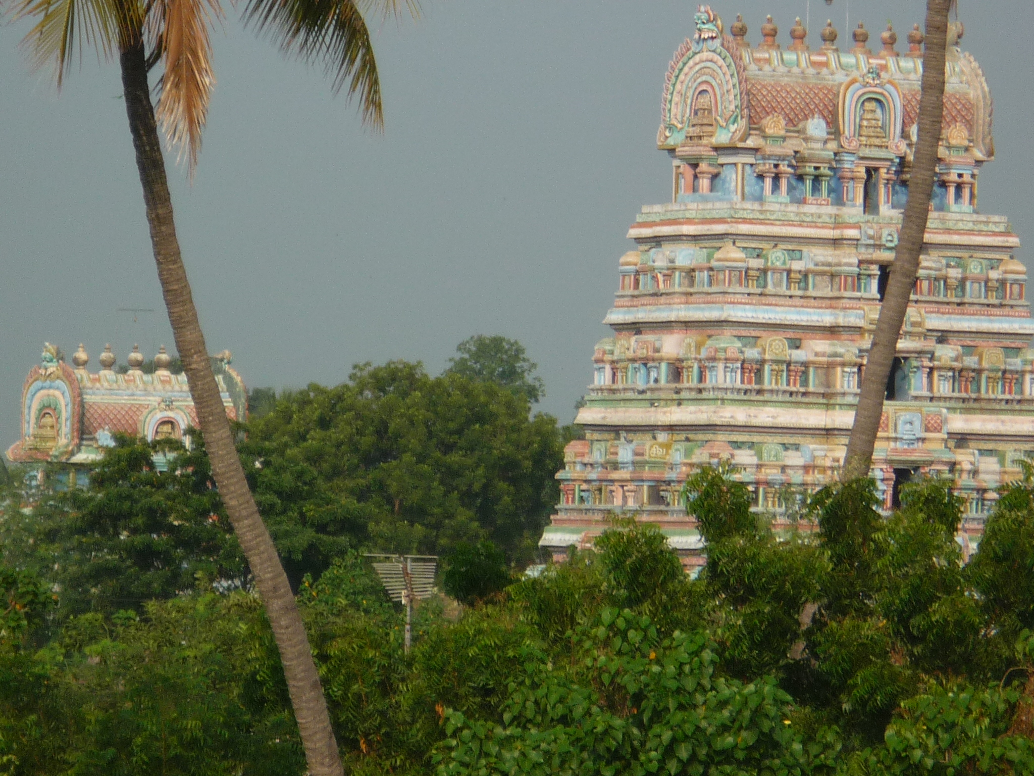 Palaivananathar Temple Tower